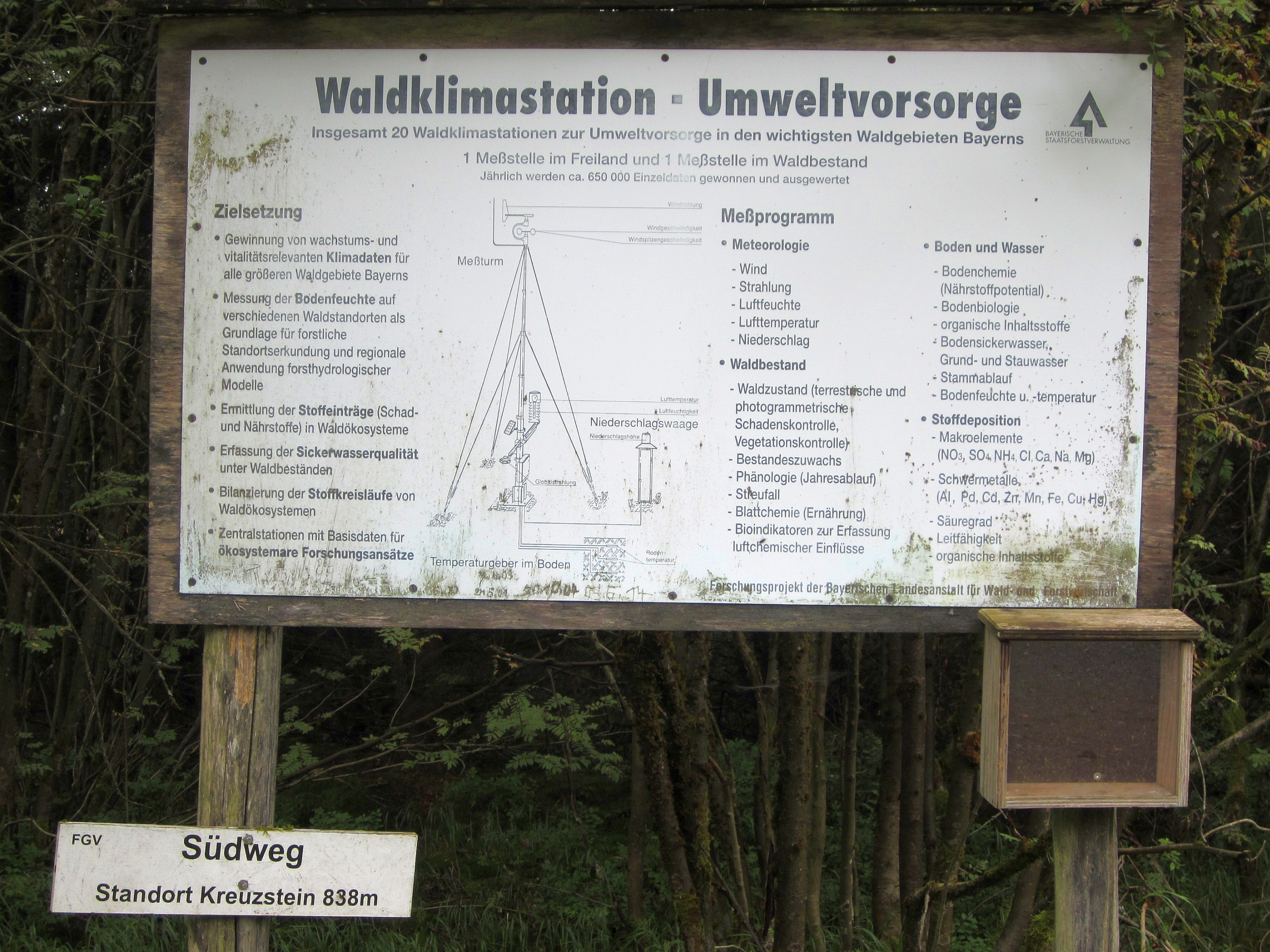 Information board for the climate measuring station at Kreuzstein, Fichtelgebirge